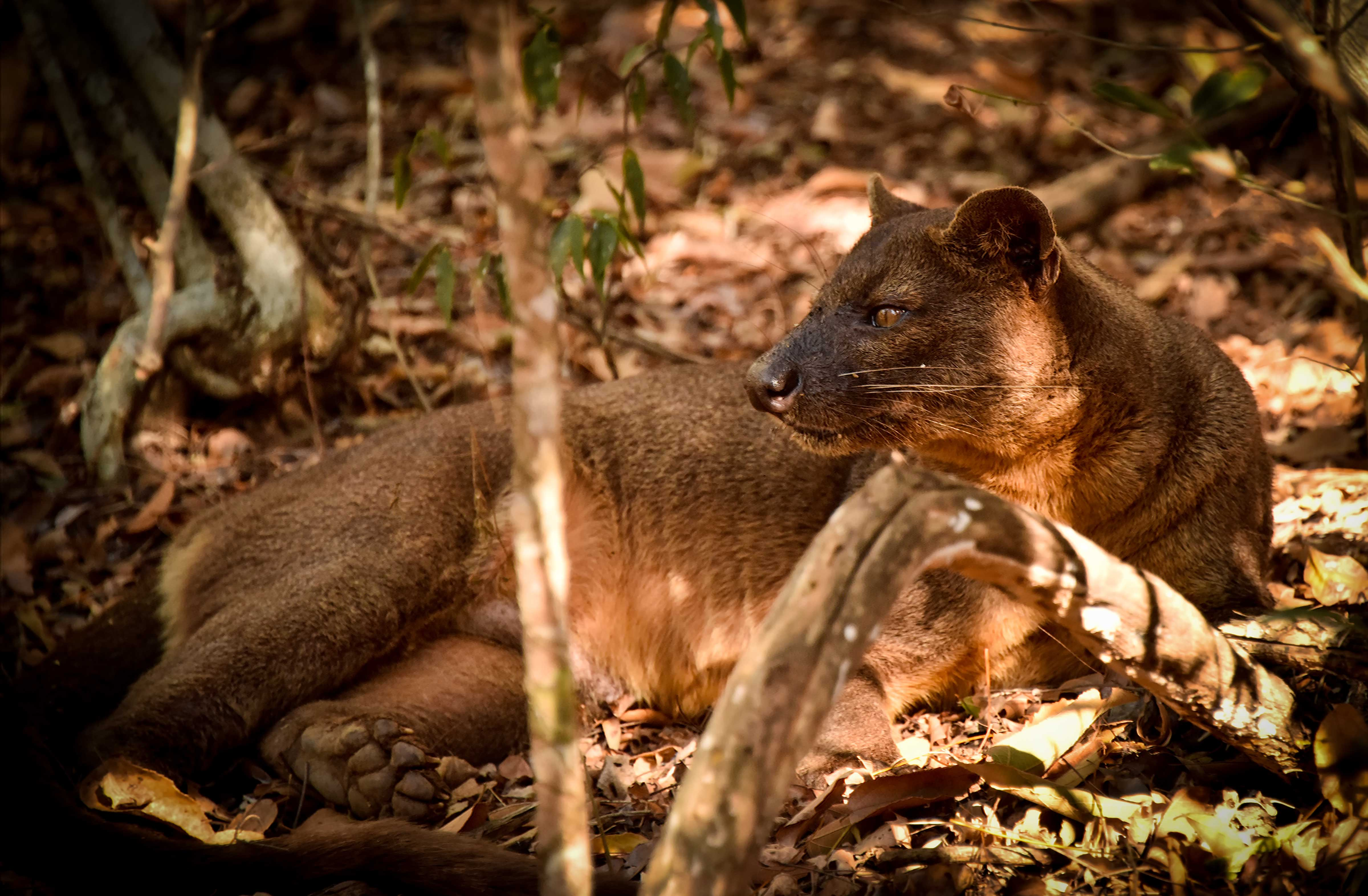 Madagascar Natural World